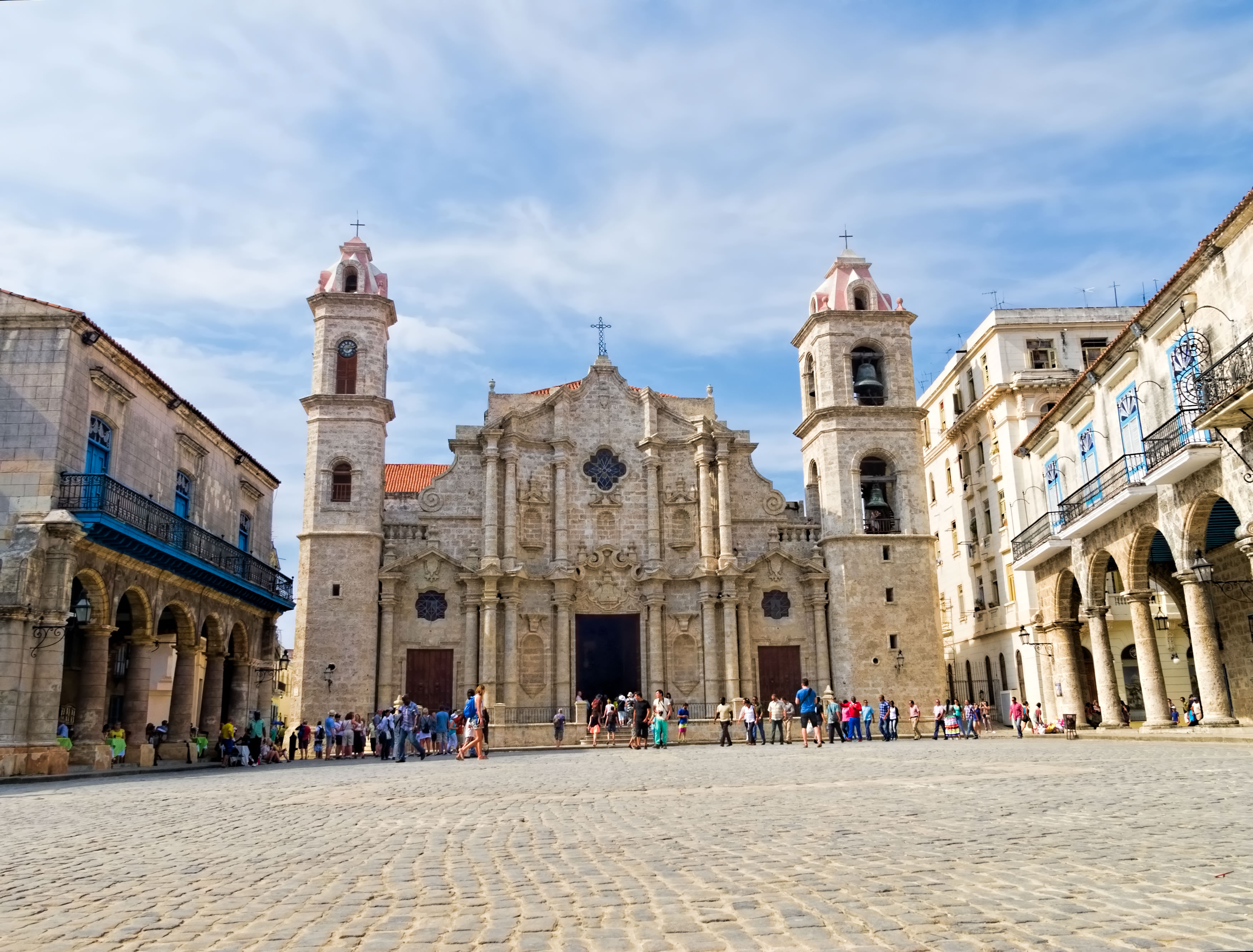 Kathedrale Havanna